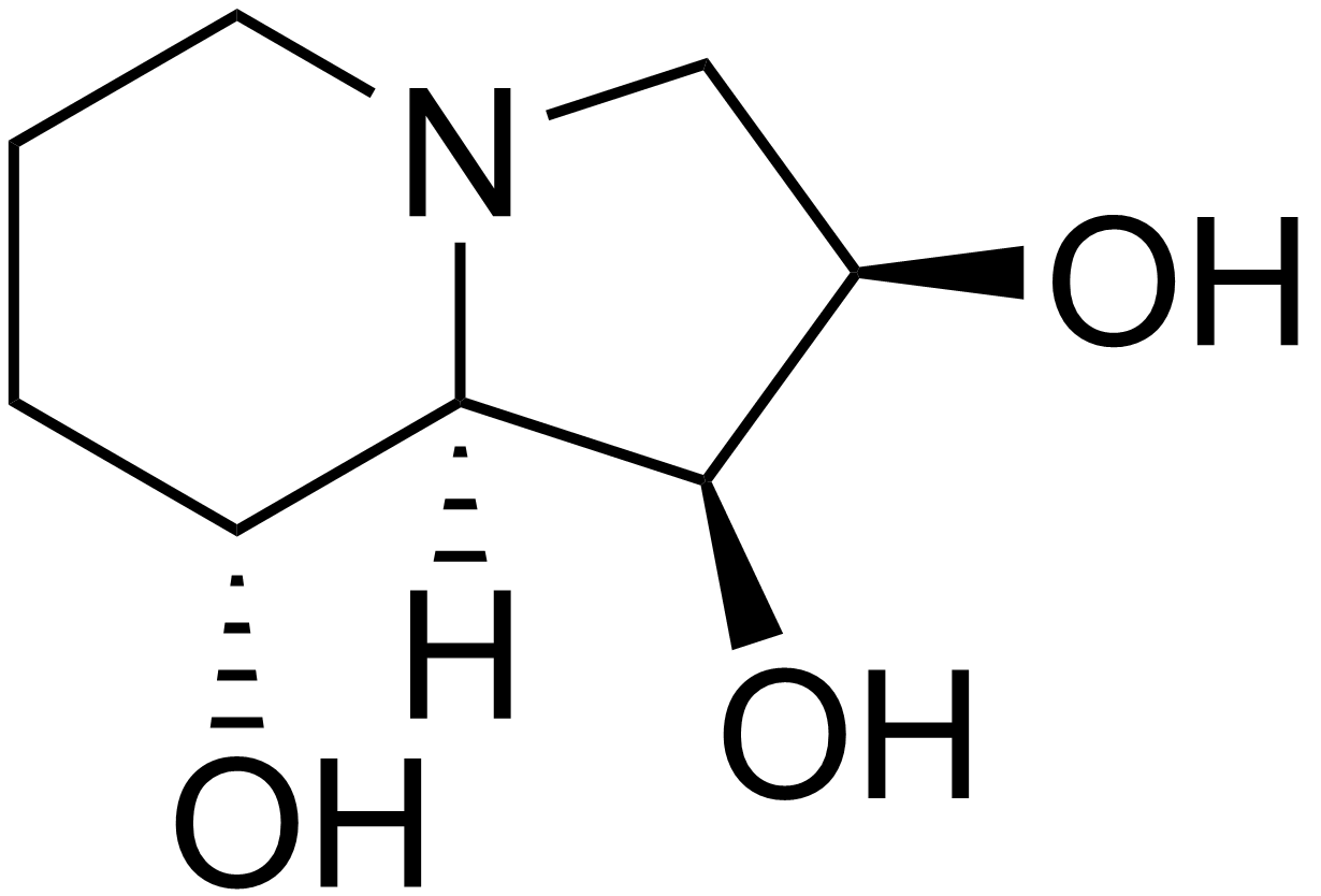 chemical structure of swainsonine